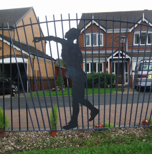 Modern housing in 'Sanderson Park' The fencing to the development on part of the former school playing fields celebrates local sporting heroine Tessa Sanderson CBE. Tessa attended the local school. She won an Olympic Gold and three Commonwealth Gold Medals in the javelin.